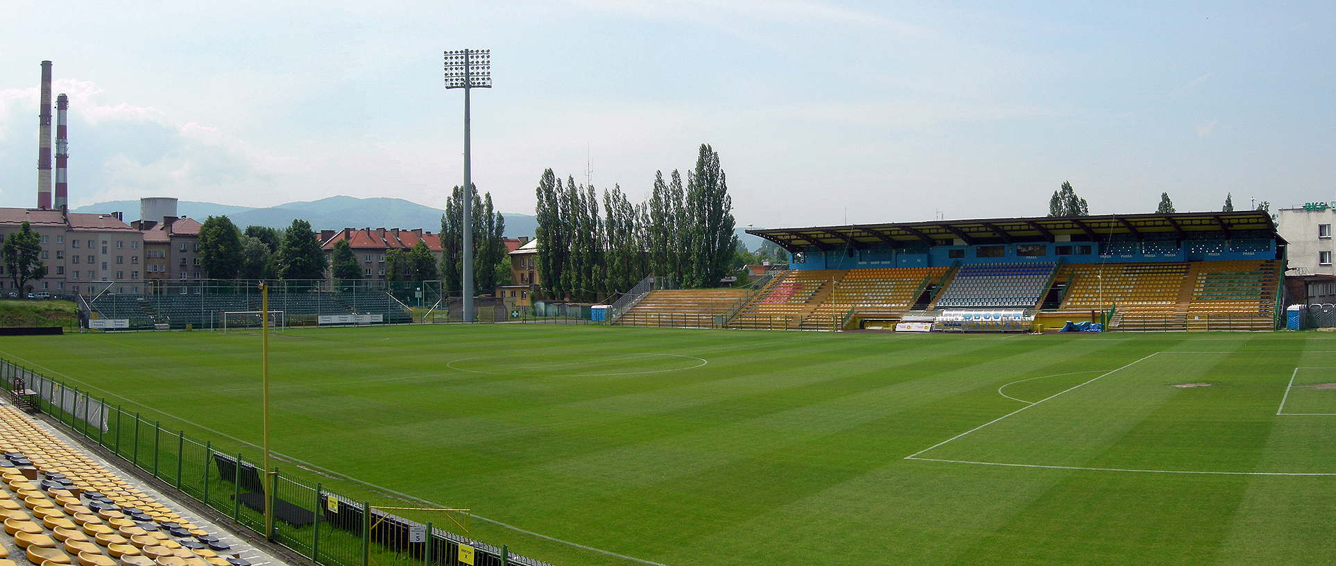 Stadion Miejski in Bielsko-Biała.